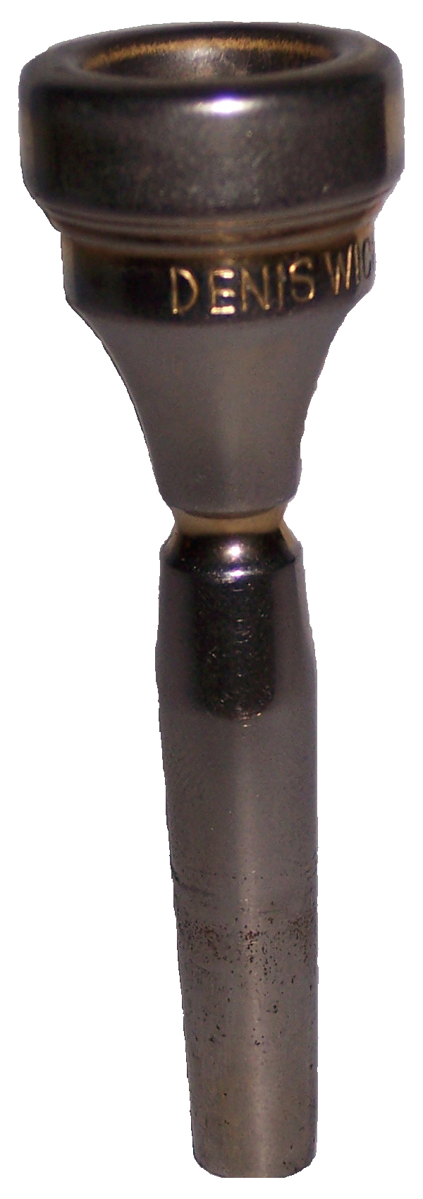 The mouthpiece of a trumpet